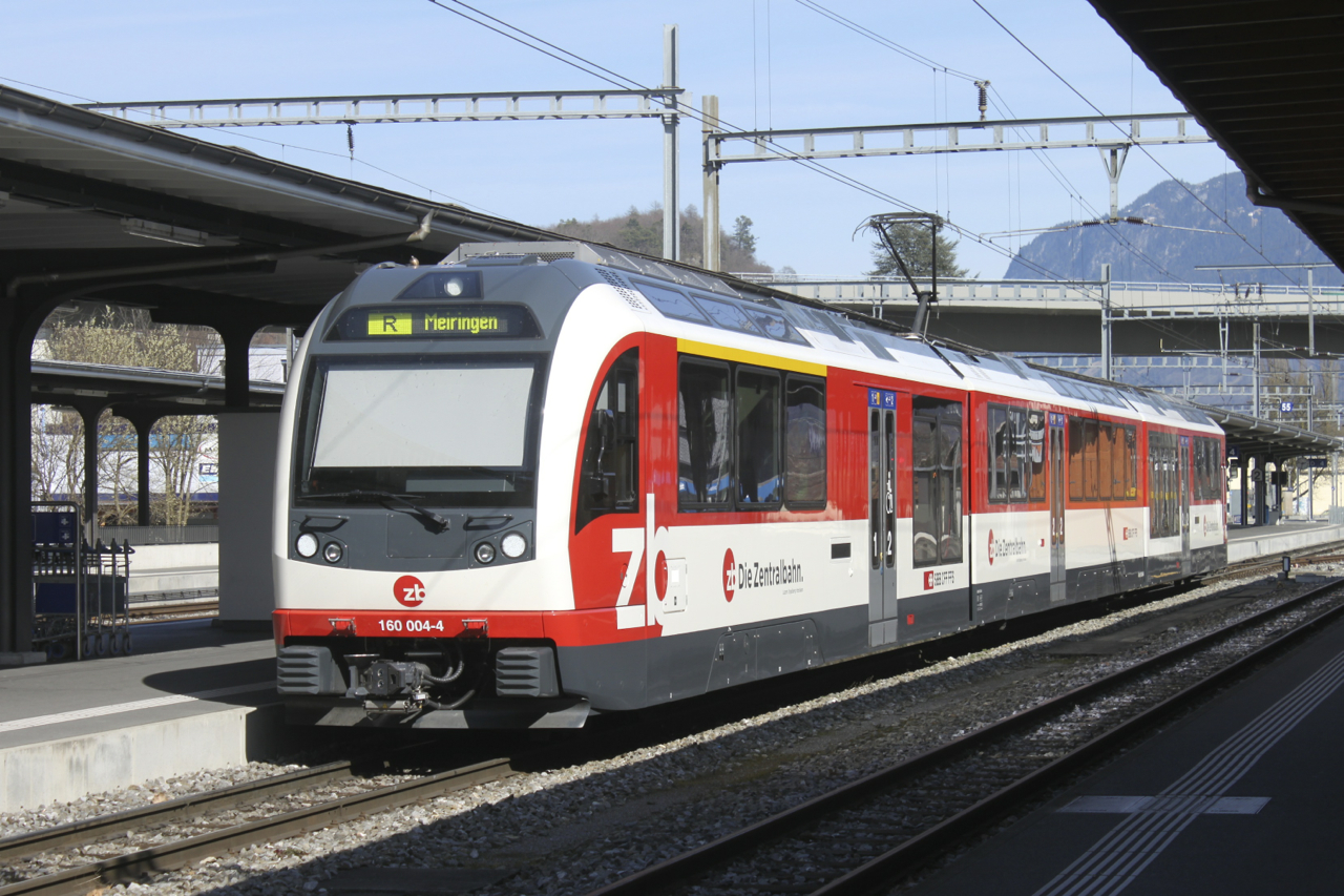 zb ABe 160 004-4 at Interlaken Ost train station.